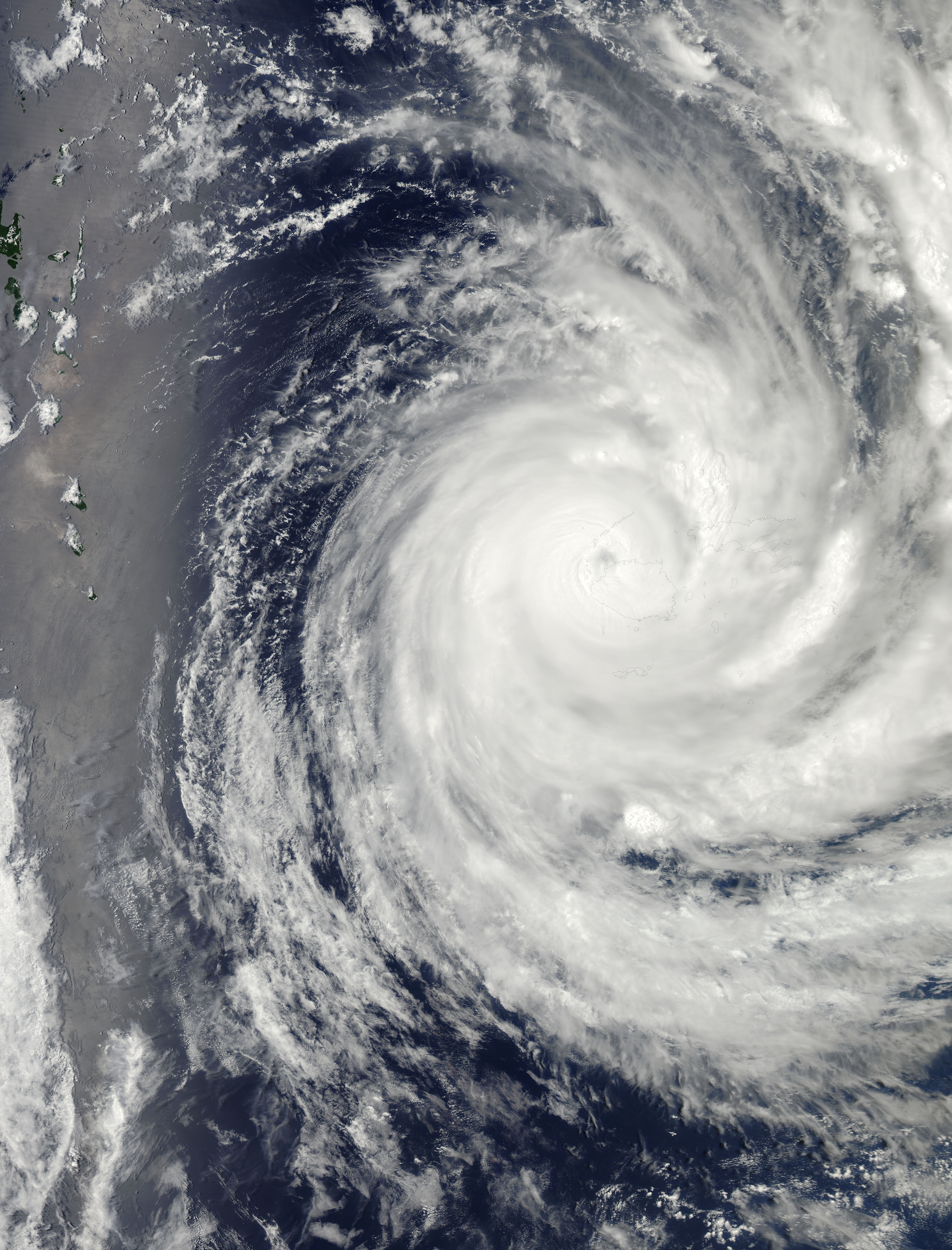 Severe Tropical Cyclone Evan on December 17, 2012, as it was stationed over the Fiji Islands.